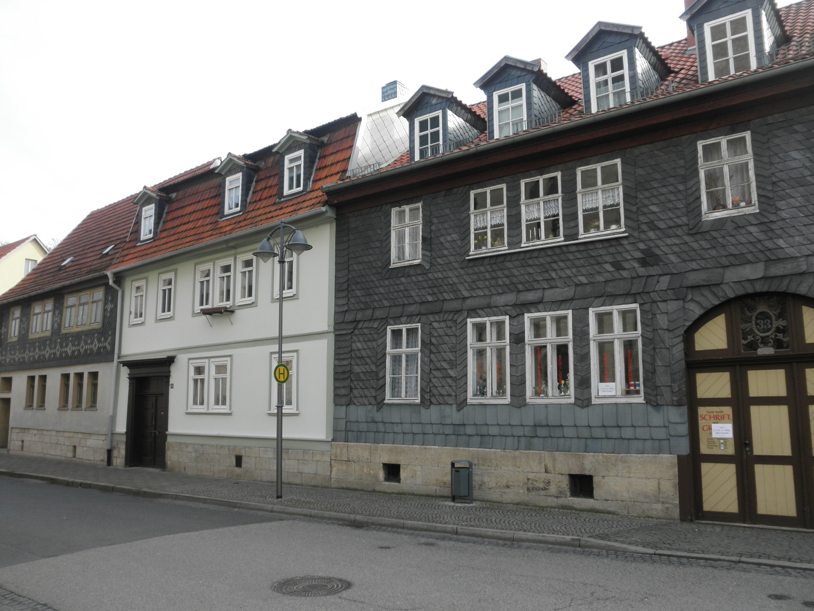 Houses in Sondershausen in Thuringia